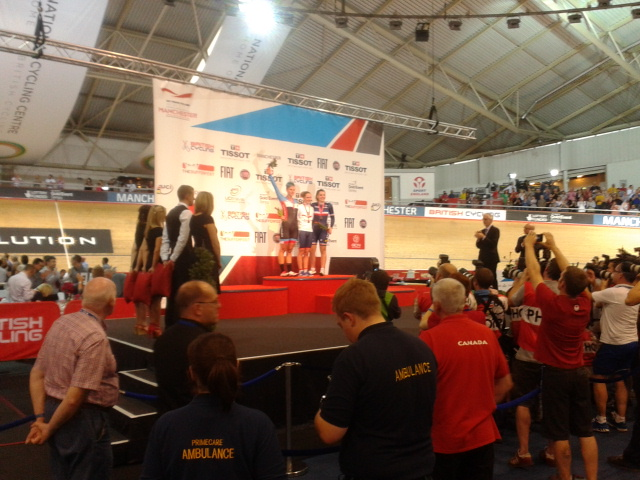 Podium women's omnium at the 2013-14 Track Cycling World Cup in Manchester